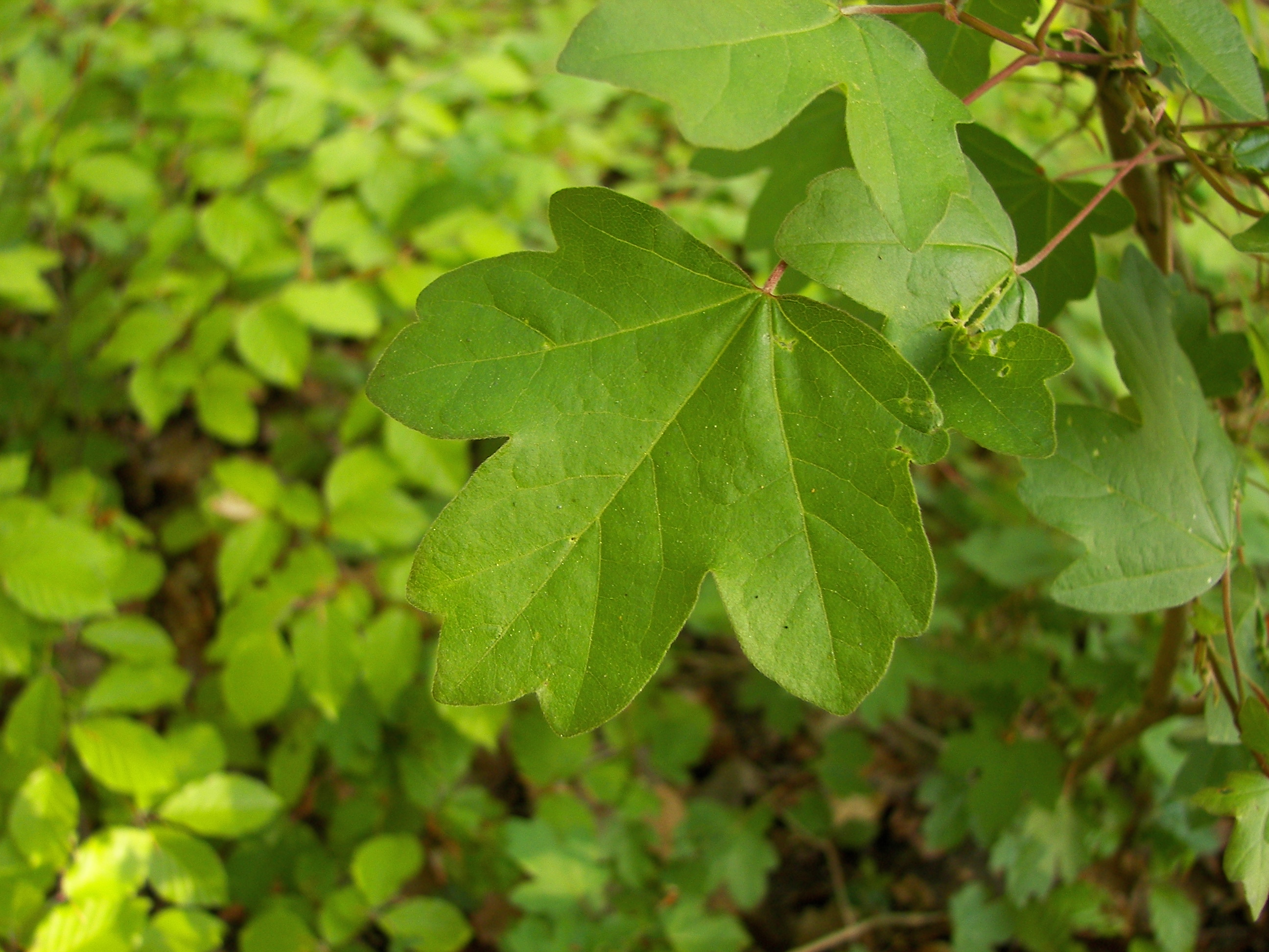 Field Maple (Acer campestre), Leaf, Location: Marburg, Hesse, Germany